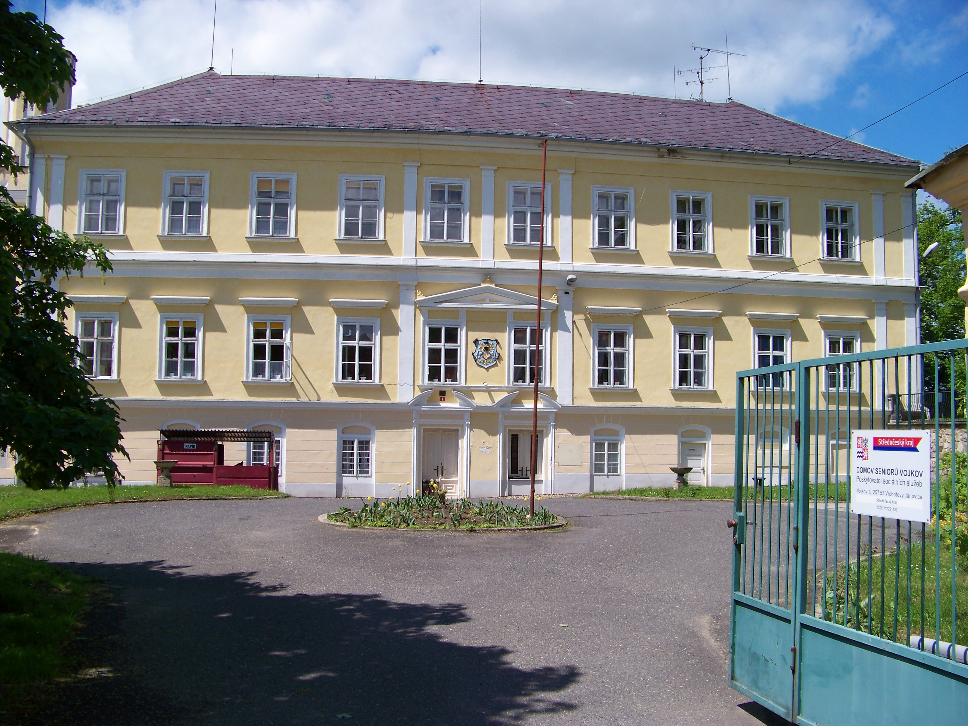 Vojkov, Benešov District, Central Bohemian Region, the Czech Republic. The castle.